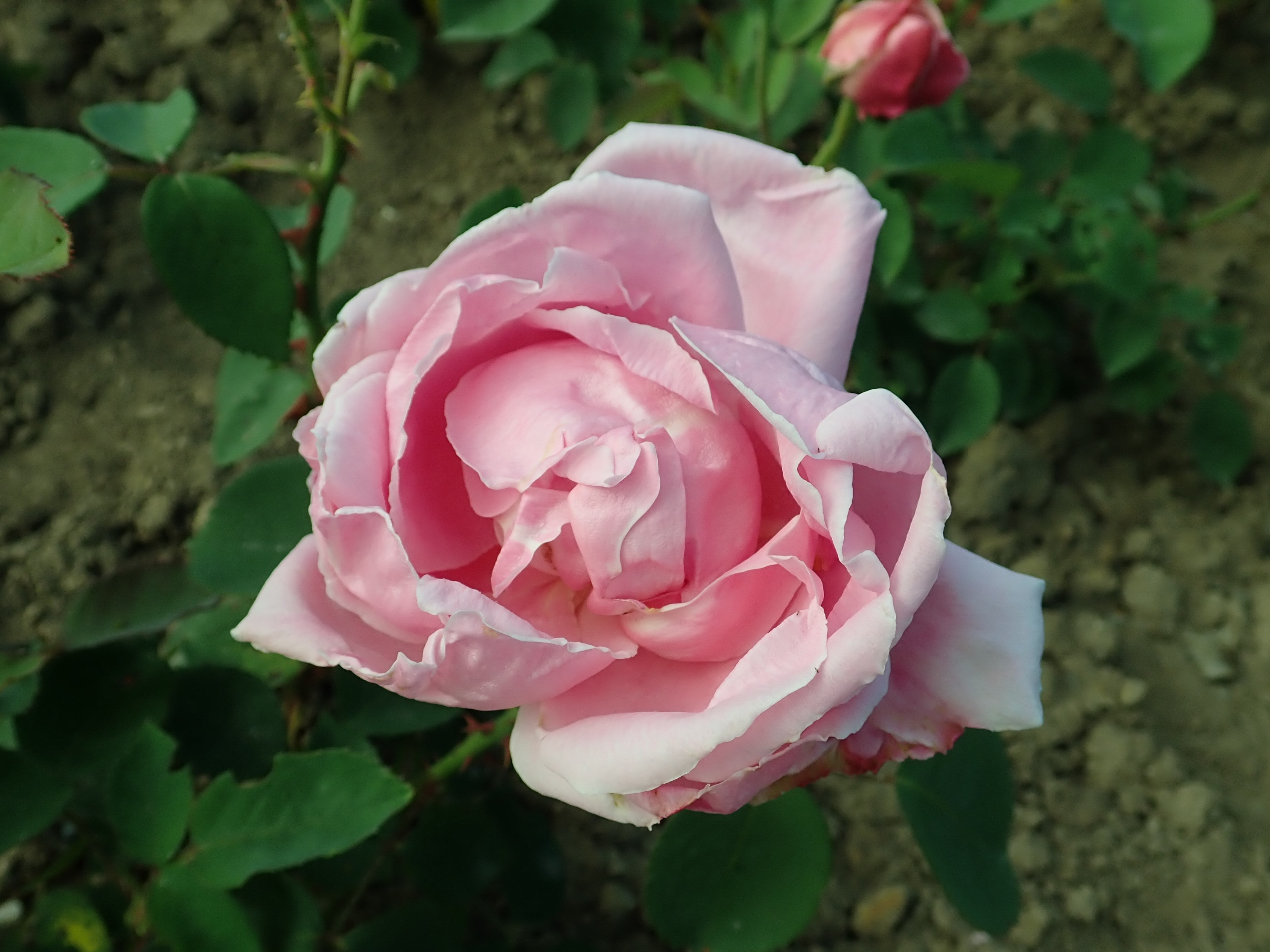 Rosa ‘Mme. Caroline Testout’ (Pernet-Ducher, 1890), Europa-Rosarium Sangerhausen.